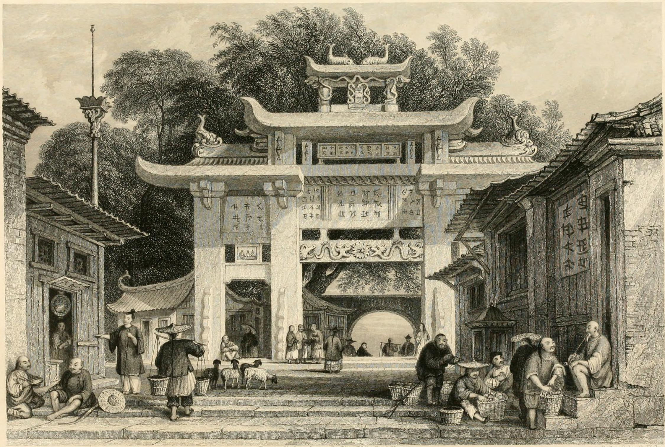 Entrance into the city of Amoy.